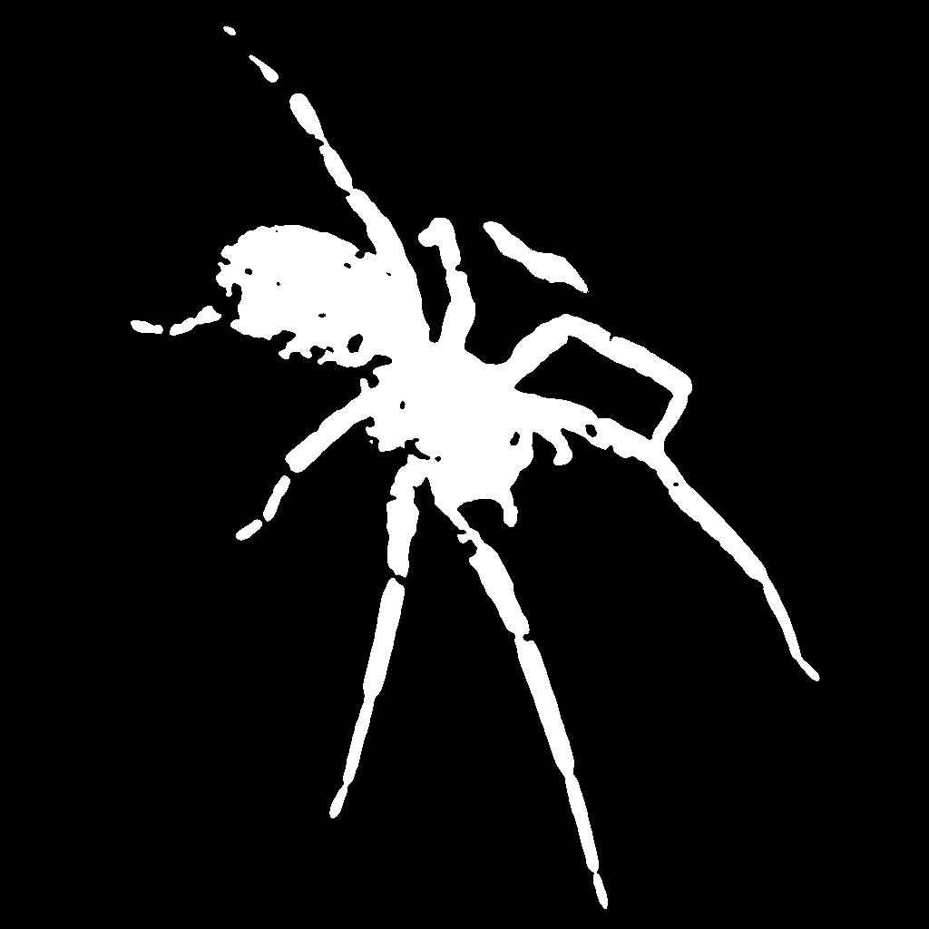 Image thresholded using the Balanced Histogram Method.